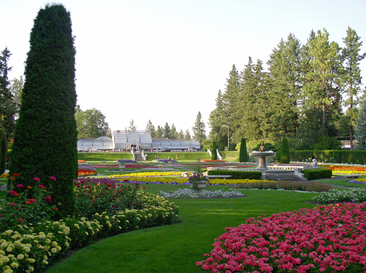 Picture of the Duncan Garden at Manito Park and Botanical Gardens in Spokane, Washington.